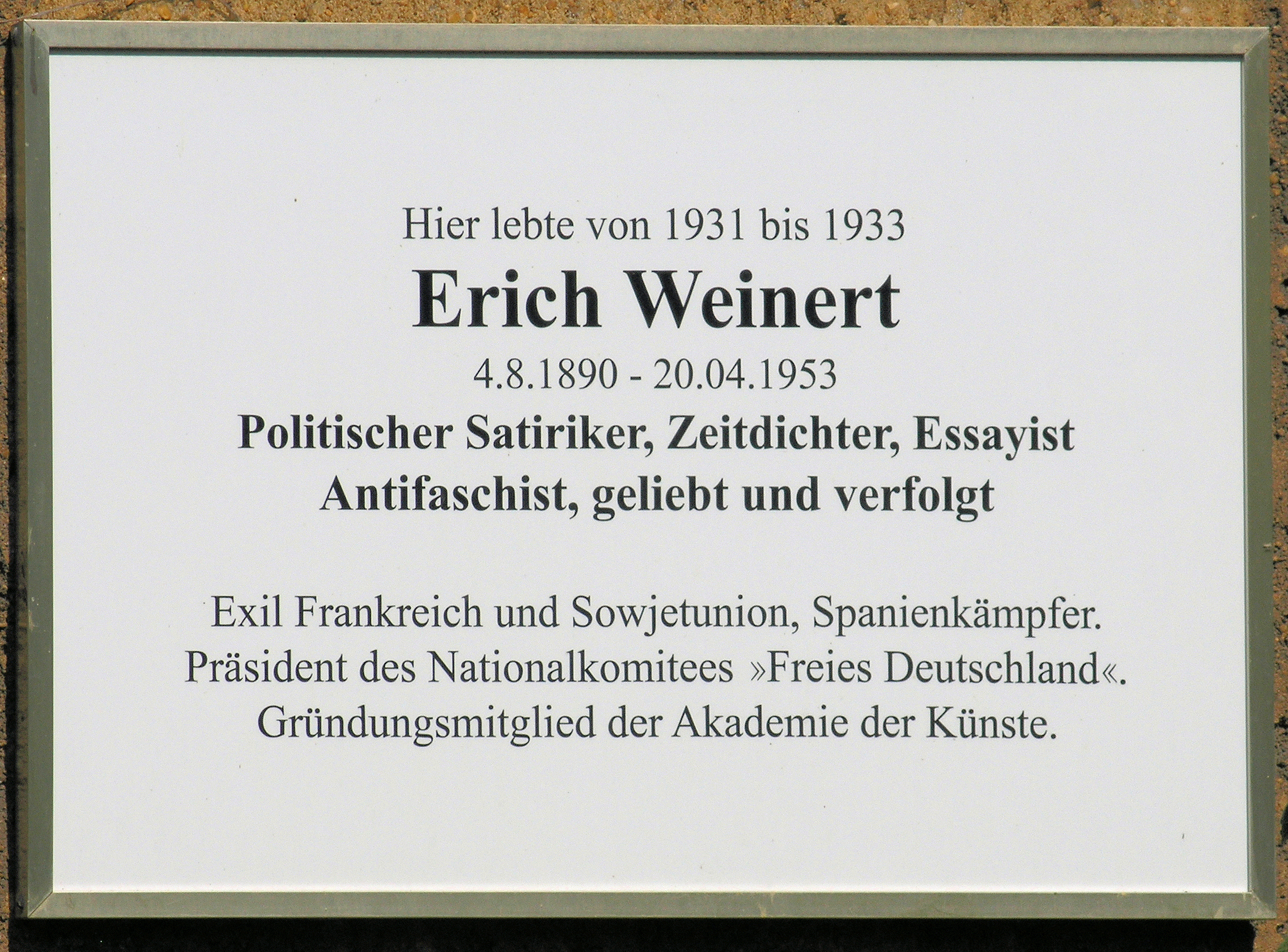 Memorial plaque, Erich Weinert, Kreuznacher Straße 34, Berlin-Wilmersdorf, Germany Koordinate:52°28′1.8″N 13°18′55.8″E / 52.467167°N 13.3155°E